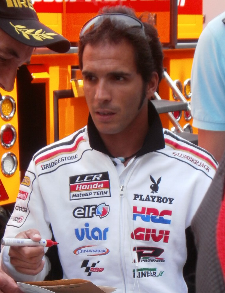 Toni Elias - Moto GP 2011 in Brno Circuit